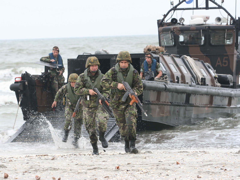 Soldiers from the 307th Marine Battalion during the joint Dutch-Romanian "Cooperative Lion 09" exercise at Vadu beach.